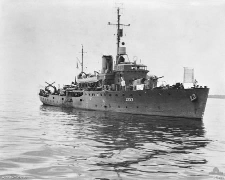 Australian Bathurst class corvette HMAS Deloraine